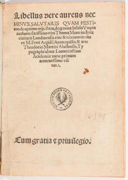 Title of Utopia by Thomas More, Thierry Martens 1516 edition